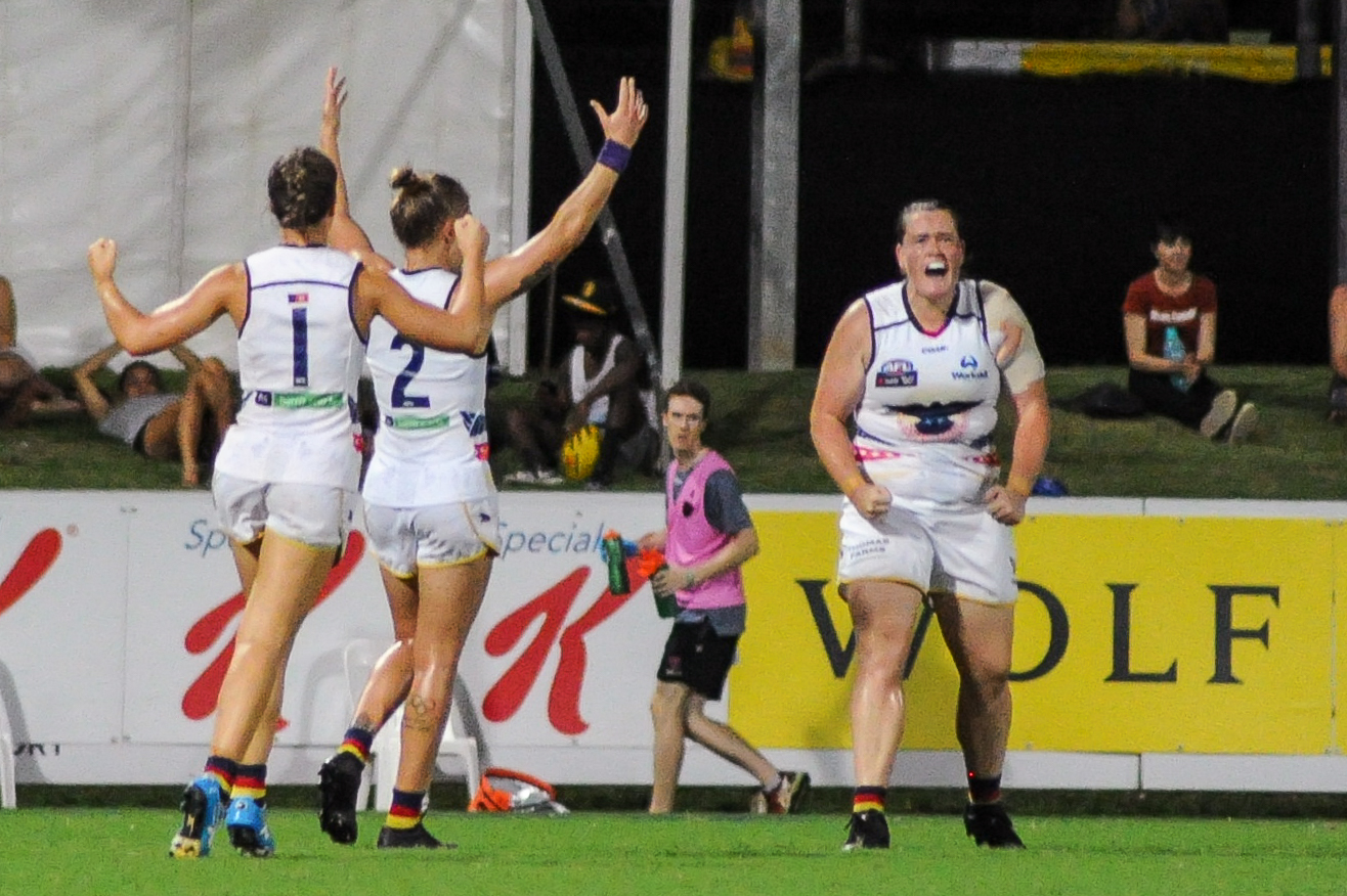 Sarah Perkins celebrating a goal during the AFL Women's round six match between Adelaide and Melbourne on 11 March 2017 at TIO Stadium in Darwin, Northern Territory